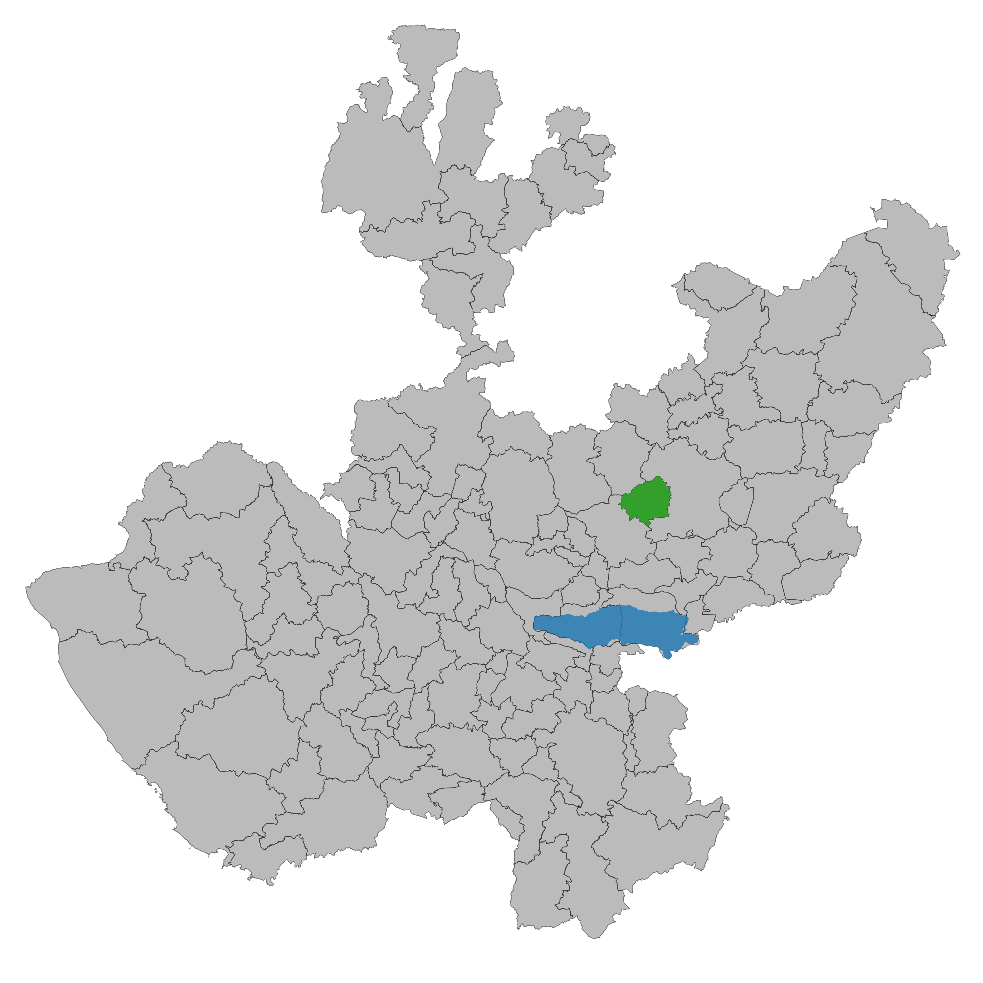 Municipality of Jalisco. Prepared with the software QGIS version 2.8.2 Wien & with information of SCINCE 2010 version 05/2013